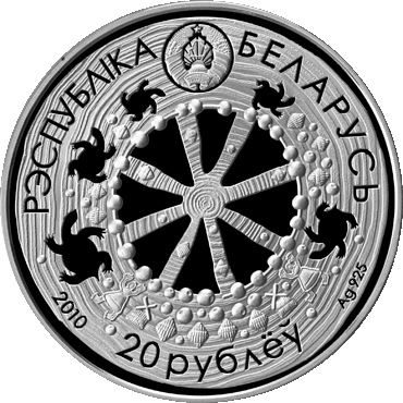 Belarusan silver commemorative coin «Легенда пра чарапаху». Denomination 20 rubles.